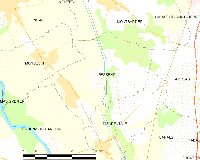 Map of French municipality Bessens